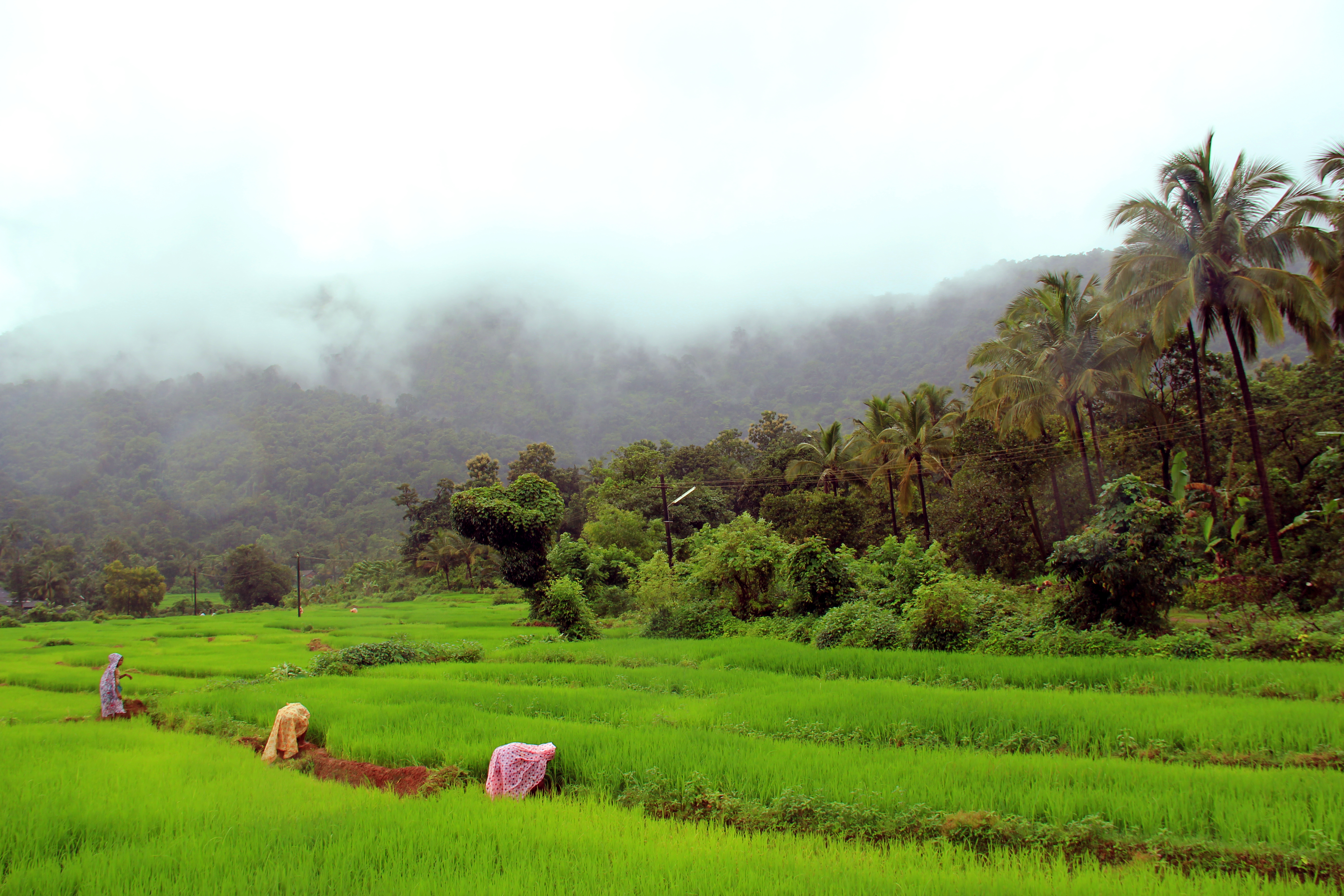 Rice plantations in Netravali Eastern Goa.